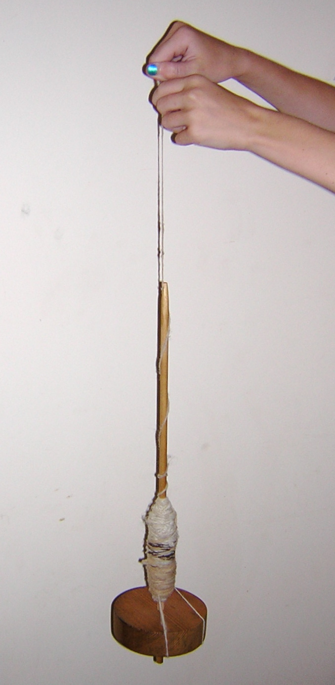 Someone spinning on a wooden drop spindle